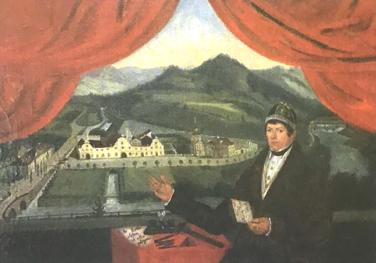 Andreas Töpper und Fabrik